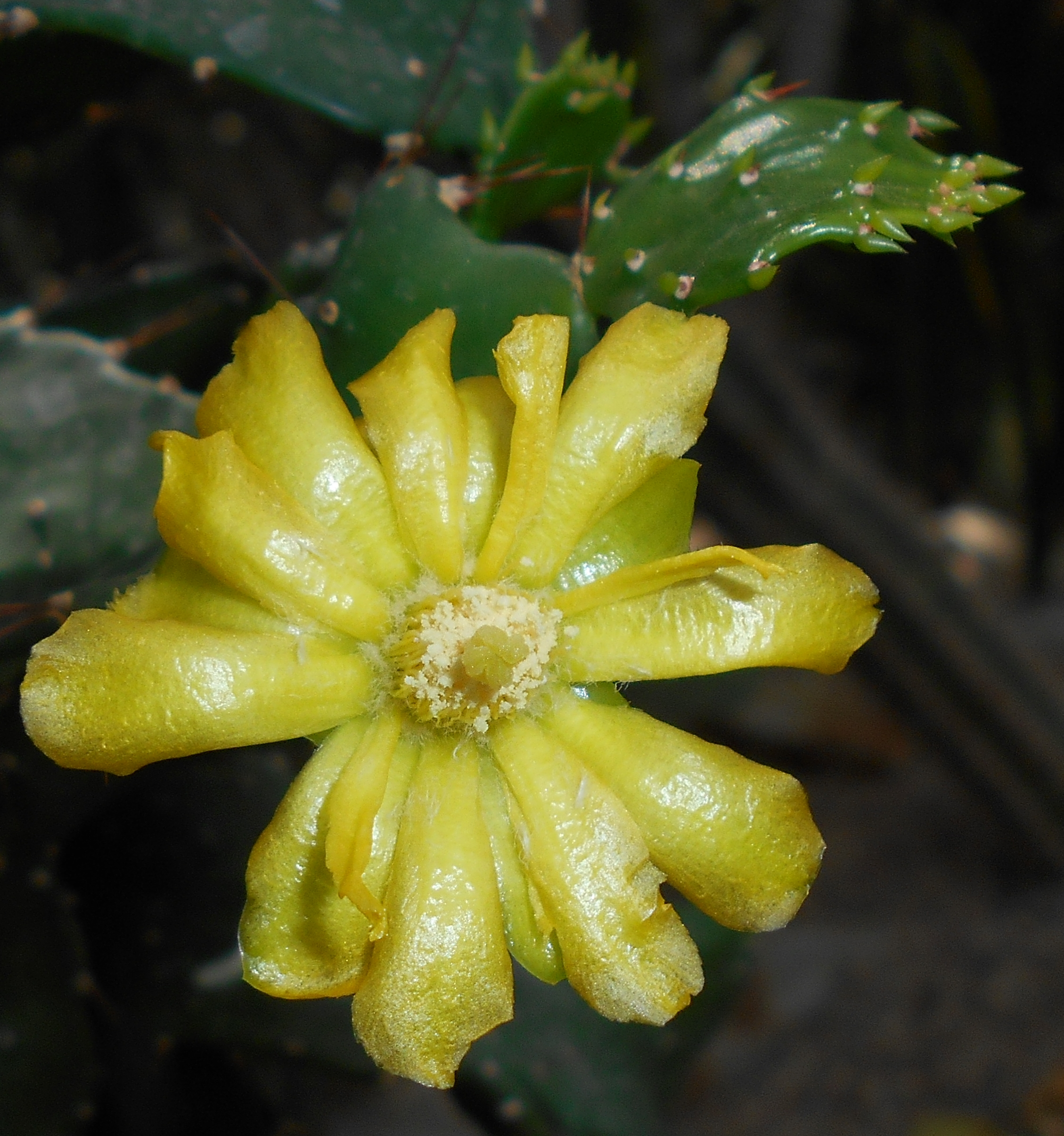 Flower of Brasiliopuntia brasiliensis